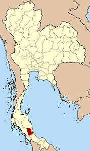 Map of Thailand highlighting Phatthalung province